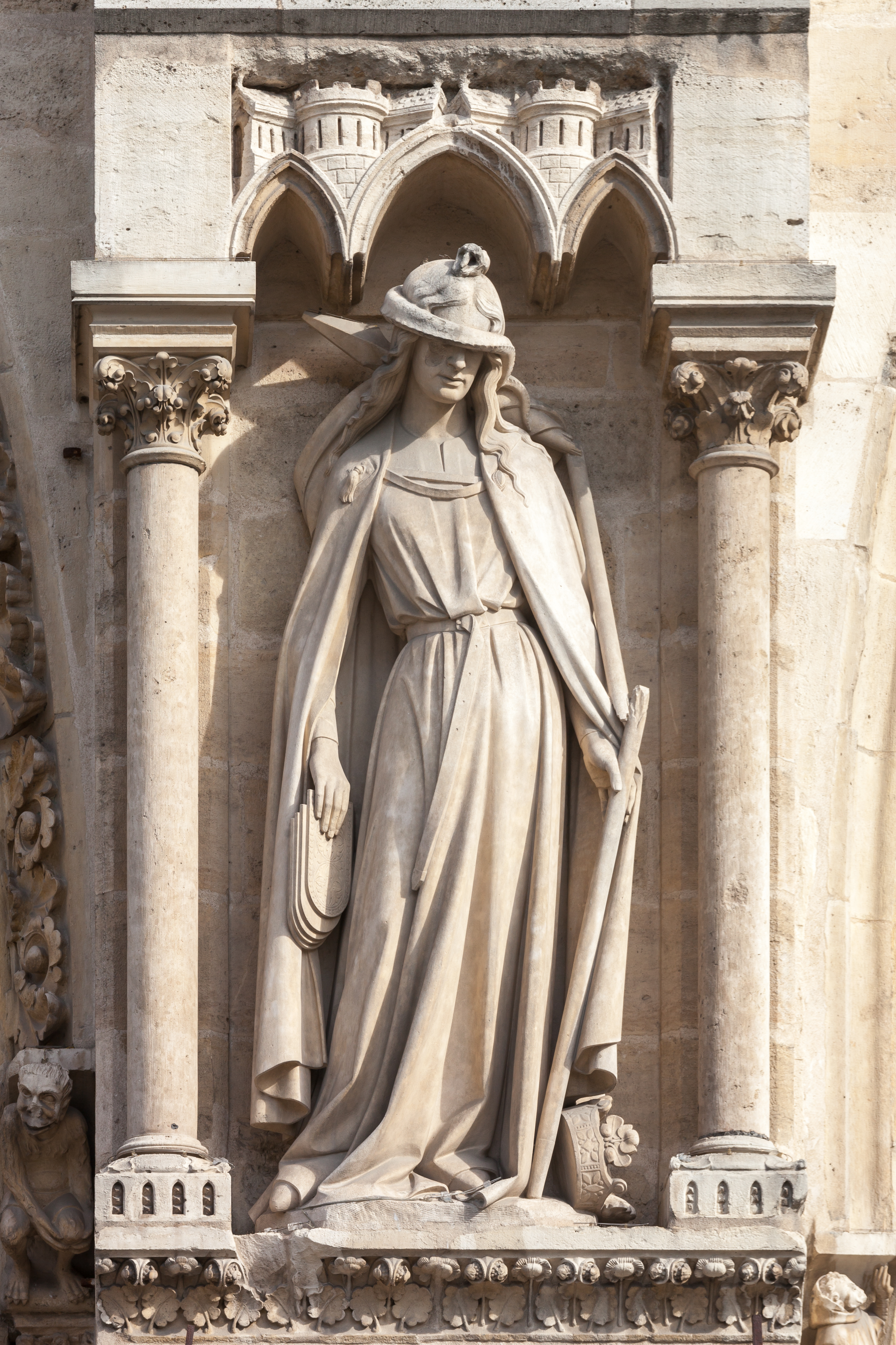 Statue. Synagoga of Notre-Dame de Paris.